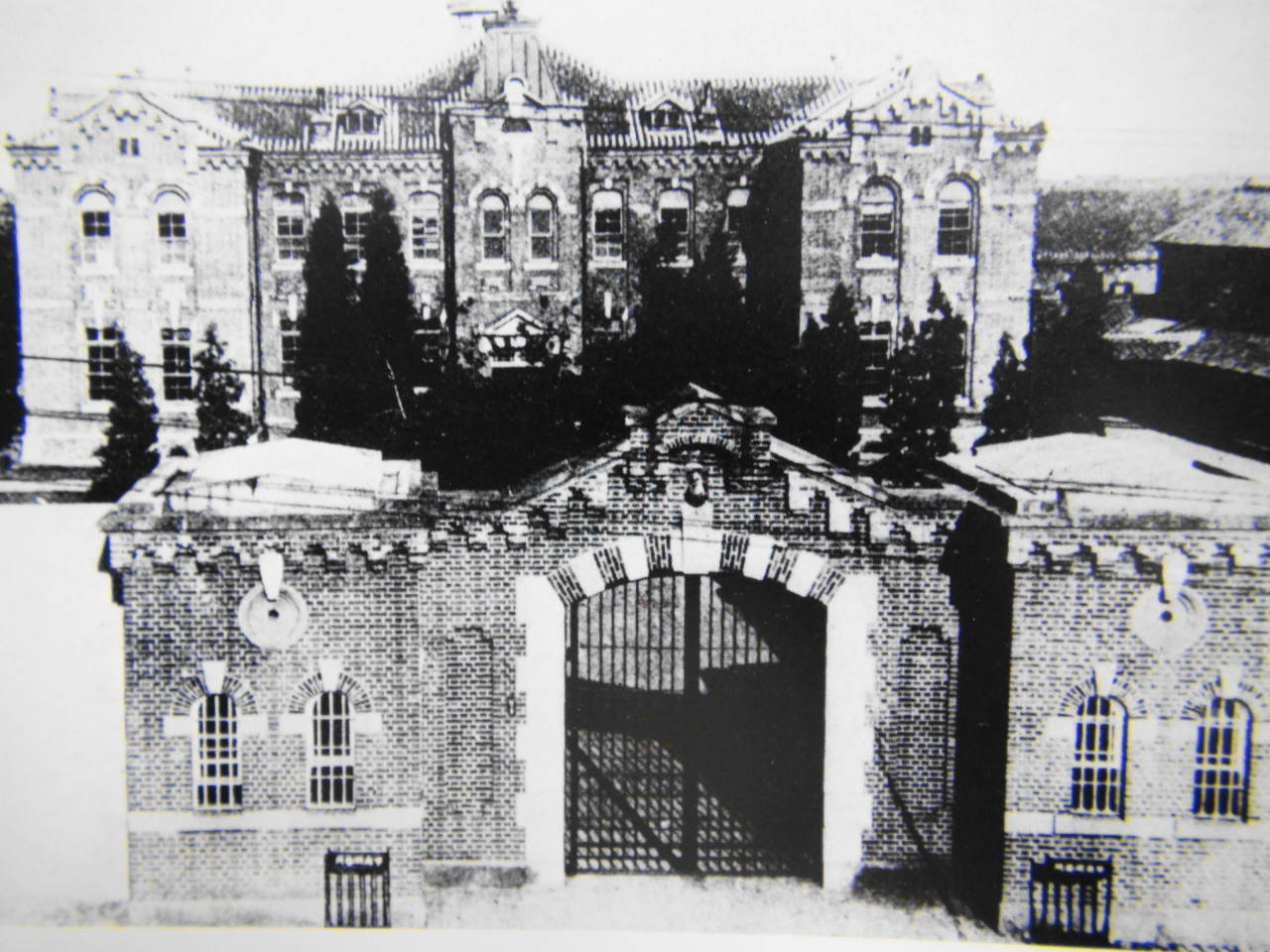 Kofu Prison 1926